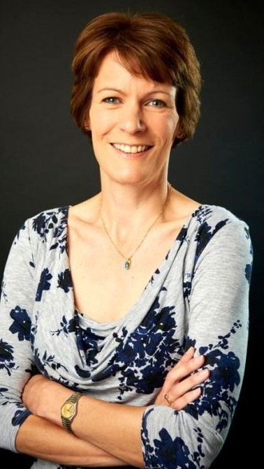 Headshot of Hazel Moore OBE